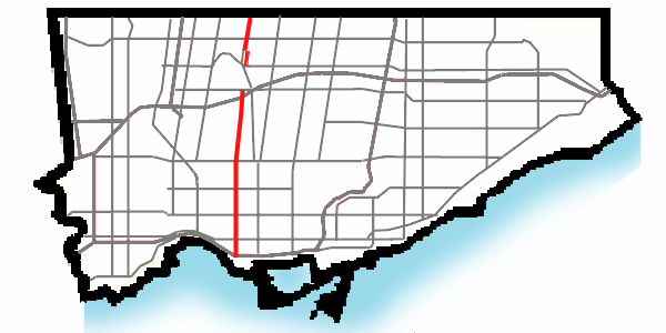 Map of Dufferin Street in Toronto